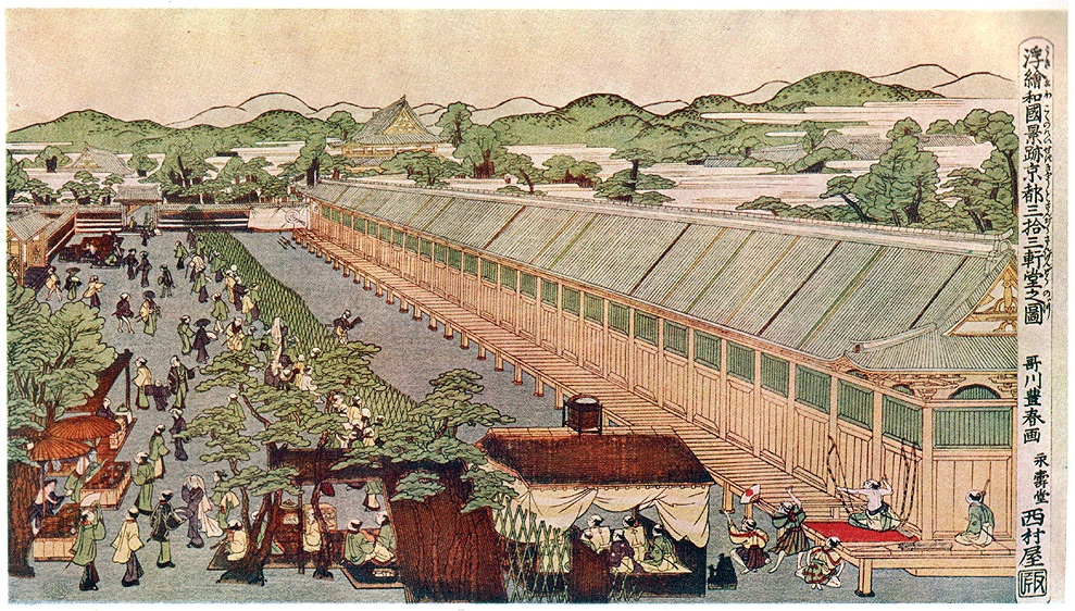 Ukiyo-e Wakoku Keiseki Kyōto Sanjūsangen-dō no Zu : Perspective Pictures of Places in Japan: Sanjūsangen-dō, a scenic site in Kyoto; Uki-e Illustrated Tōshi-ya of the Sanjūsangen-dō.